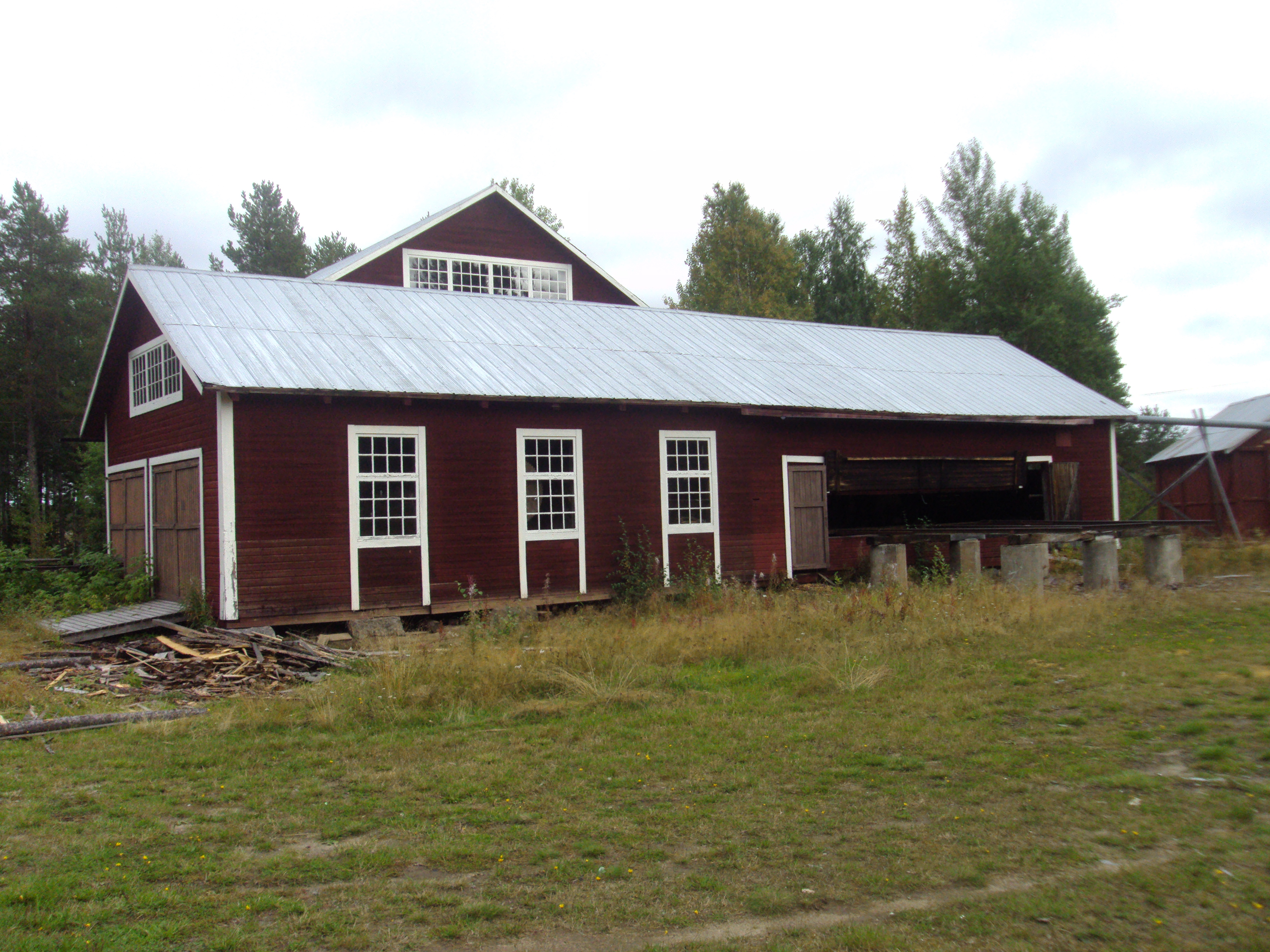 The sawmill in Gafsele